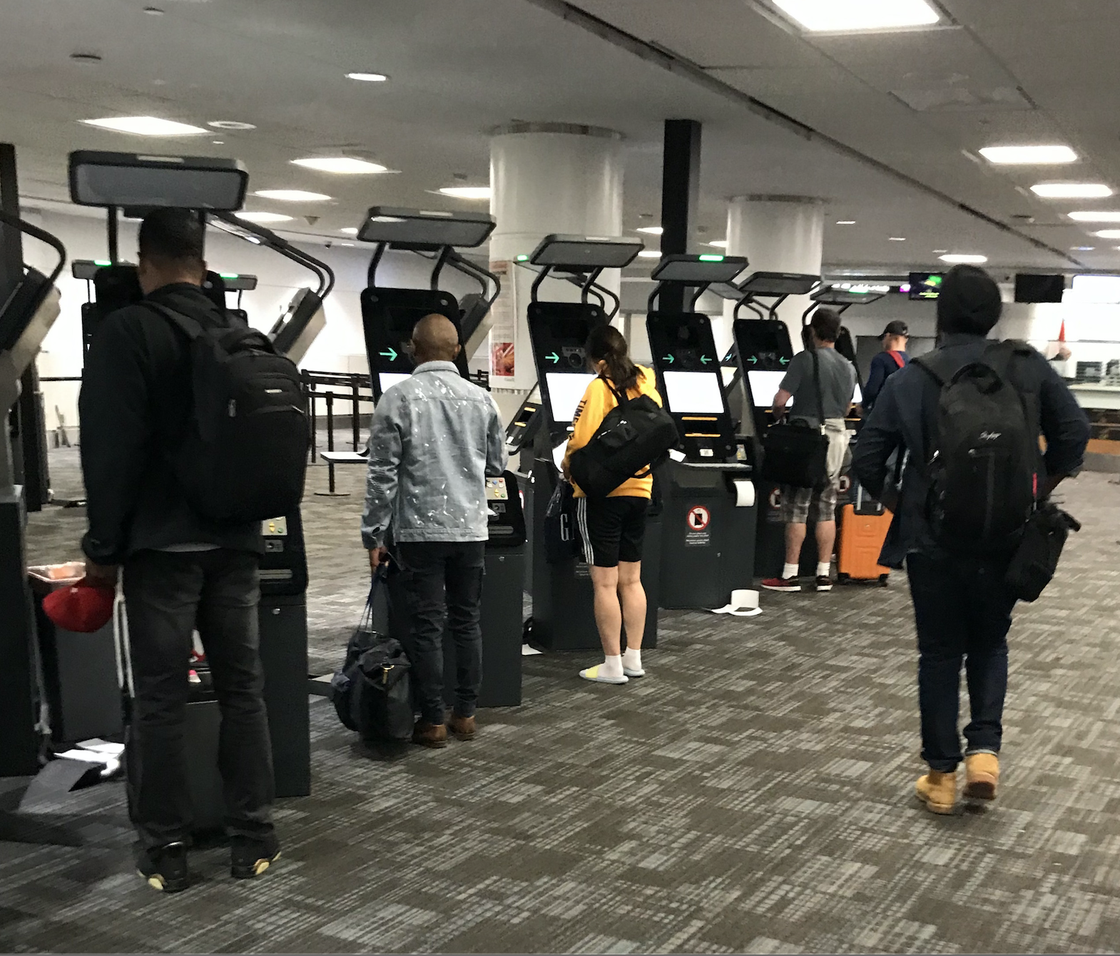 Automated border clearance self-serve kiosks at Toronto Pearson International Airport.